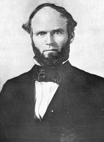 Charles Billinghurst (Wisconsin Congressman)